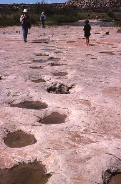 Dinsaur trackway at the Purgatoire dinosaur tracksite, Colorado, USA